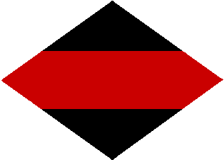 Formation patch for the 1st Canadian Armoured Brigade. The copyright on the design would have originally been held by the Canadian Department of National Defence, but this crown copyright would have expired 50 years after the creation date in 1943.